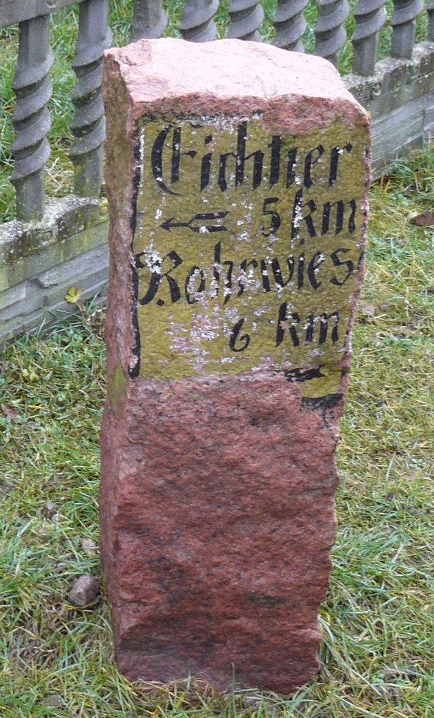 Wołowe Lasy - old fingerpost.